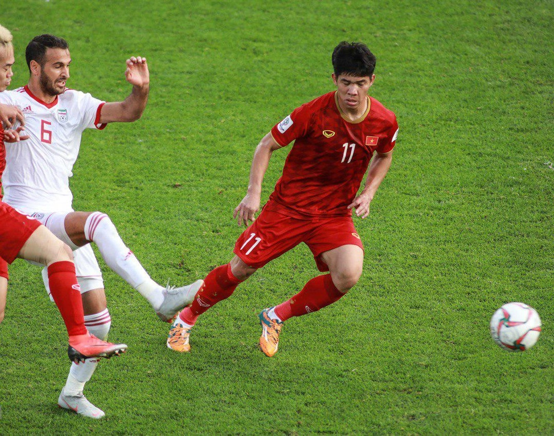 Iran v Vietnam, 12 January 2019 - 2019 AFC Asian Cup